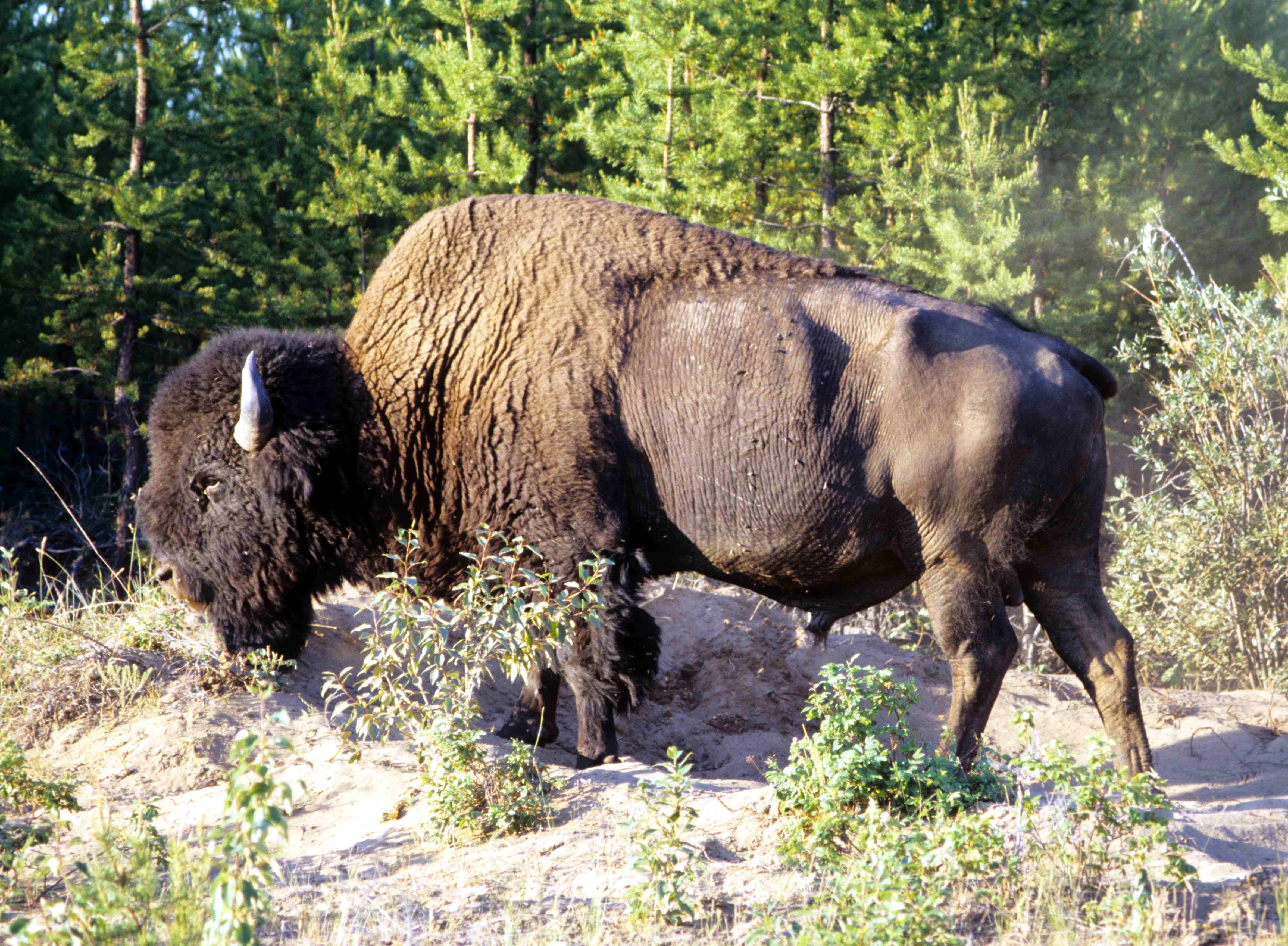 Wood Buffalo (Bison bison athabascae) in Wood Buffalo National Park, Canada